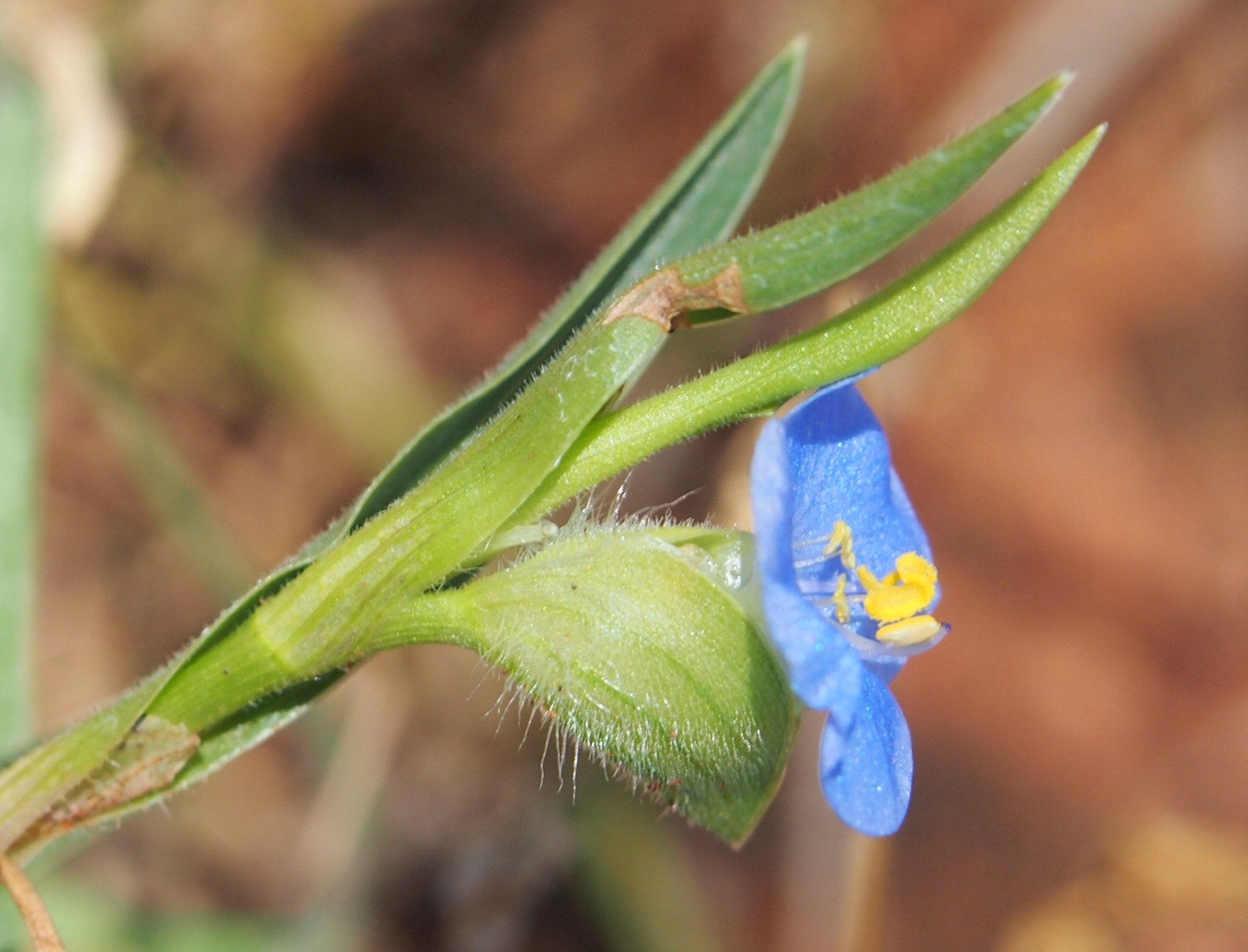 Commelina ensifolia flower